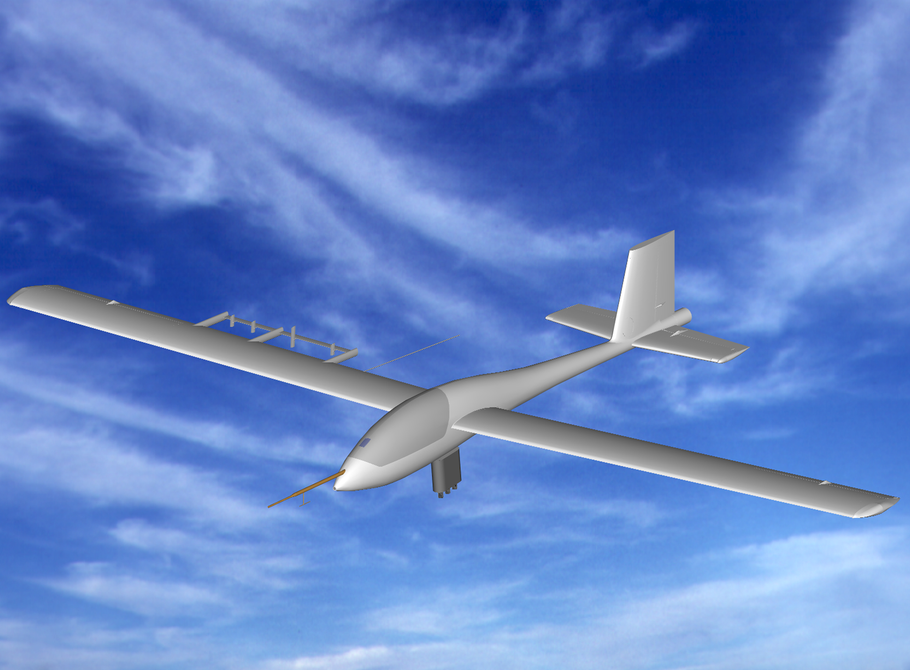 This computer-generated image depicts the current design concept of the Apex high-altitude research sailplane being developed by Advanced Soaring Concepts for NASA-Dryden's ERAST program. (NASA/ASC graphic image)